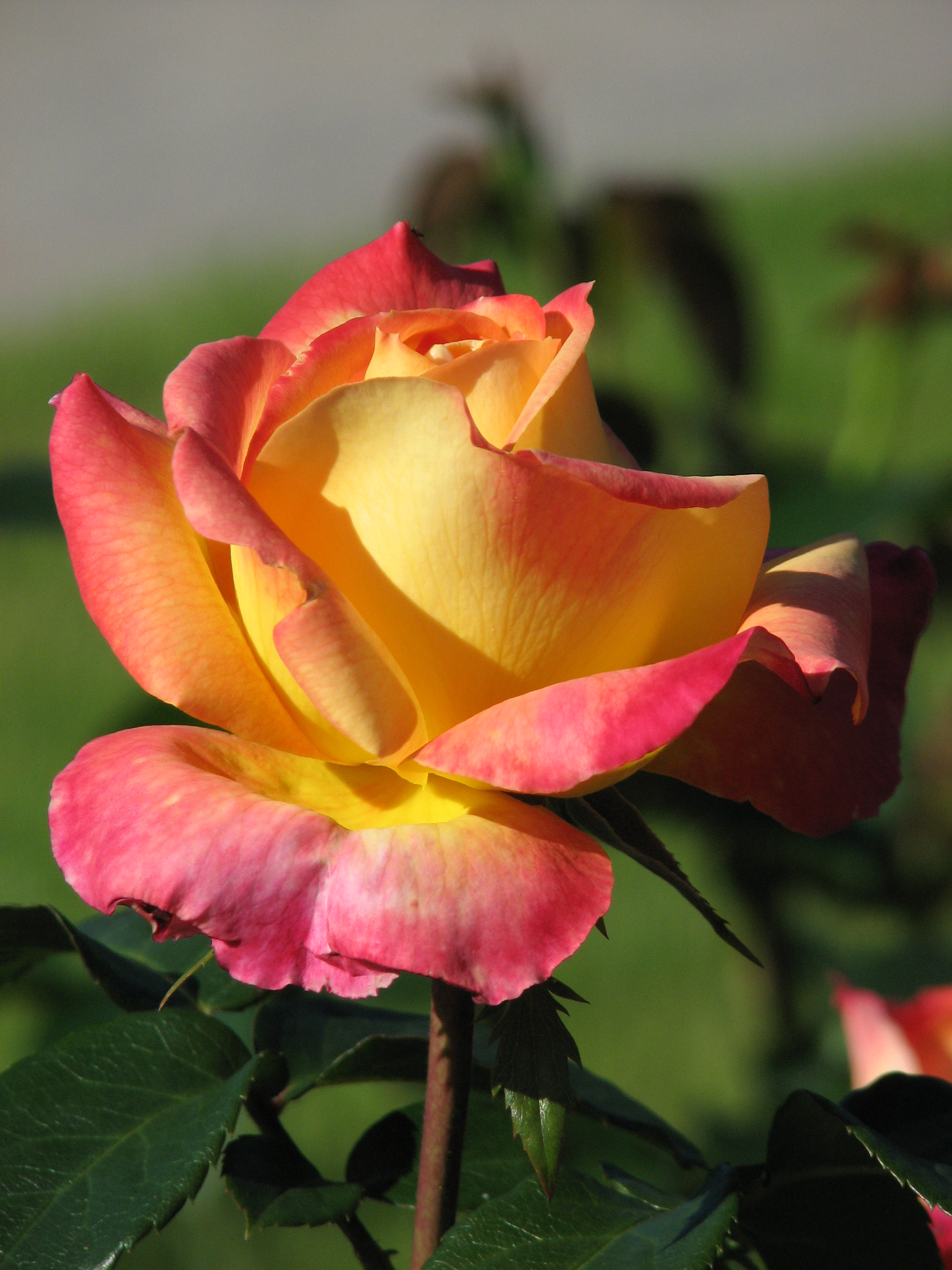 Rosa 'Pullman Orient Express' (Lim & Twomey, 2001). From the collection of the Main Botanical Garden of Academy of Sciences in Moscow (Rosarium).